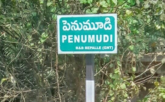 A signboard of Penumdi village